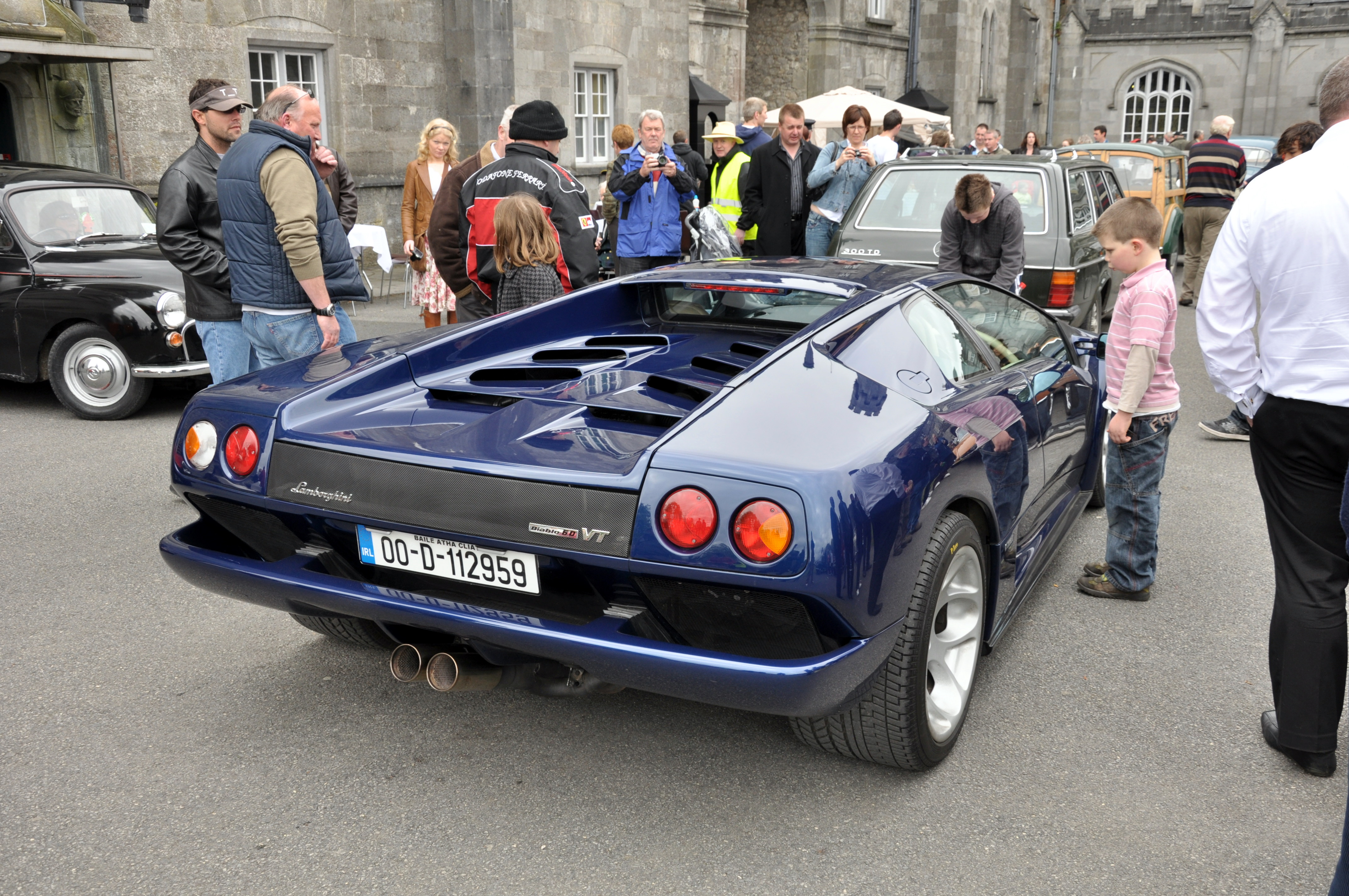 You can always count on a lambo to draw a crowd!